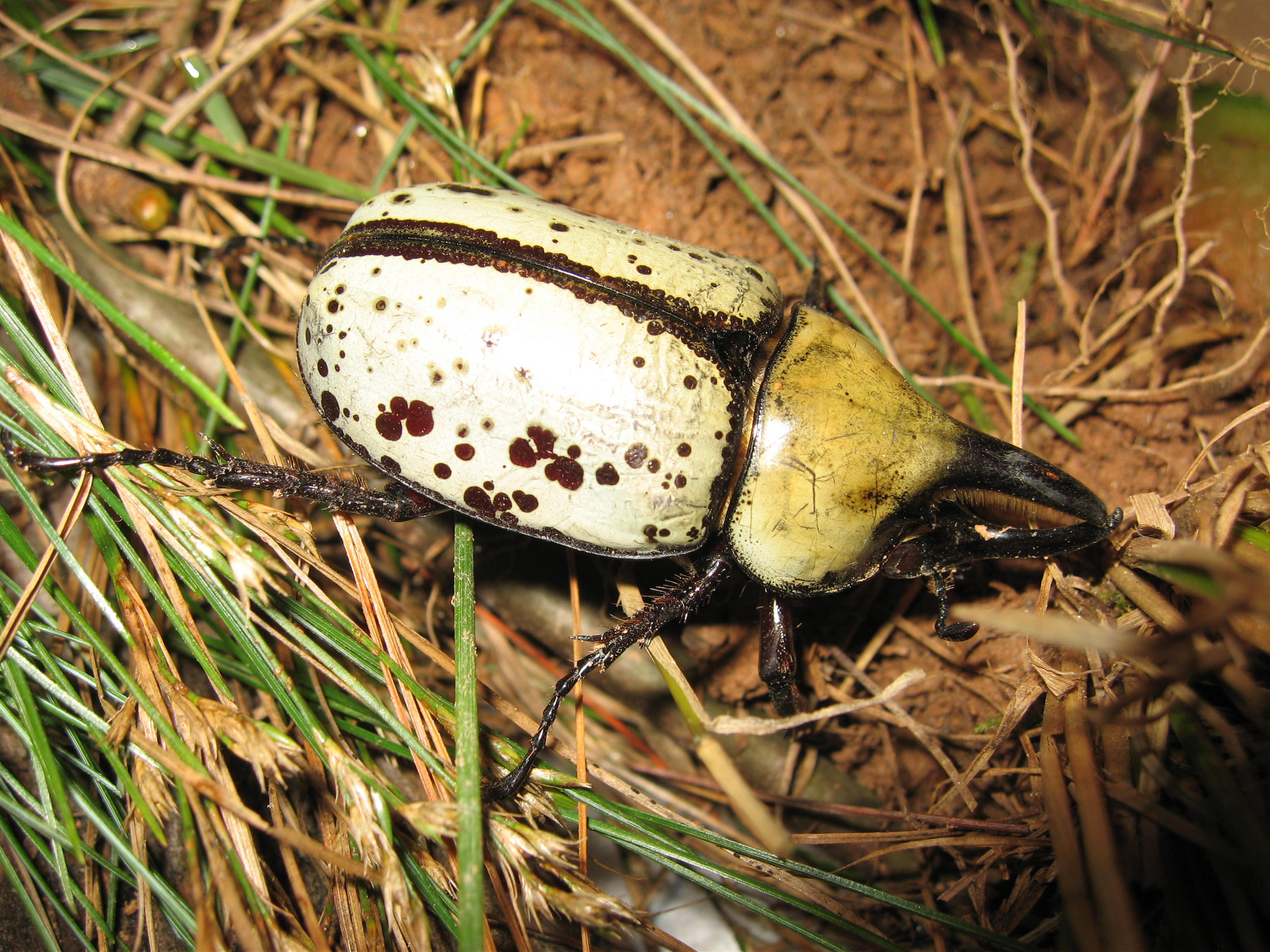 Male eastern Hercules - rhino beetle (Dynastes tityus)